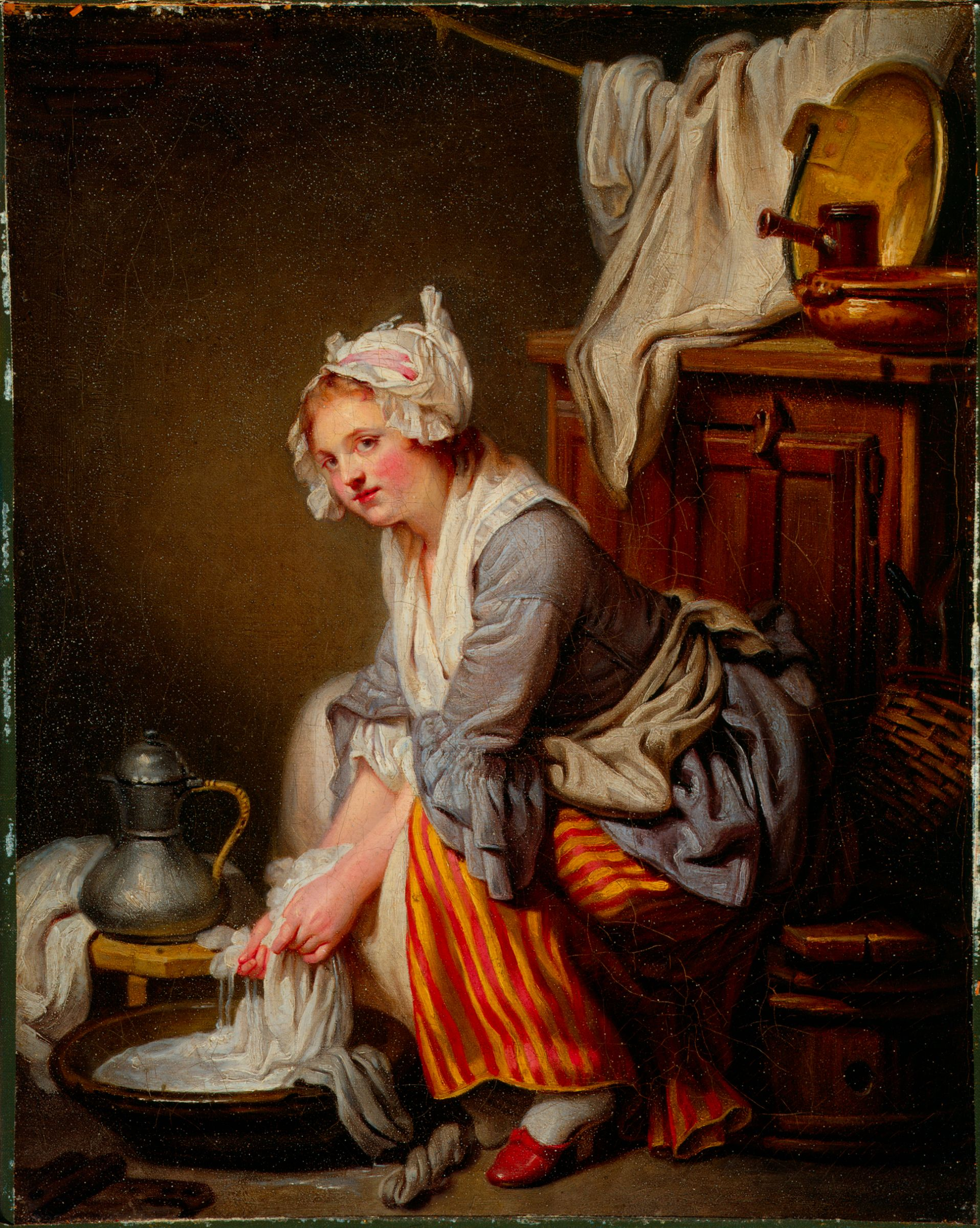 Autograph replica of the original, possibly created for engraving purposes